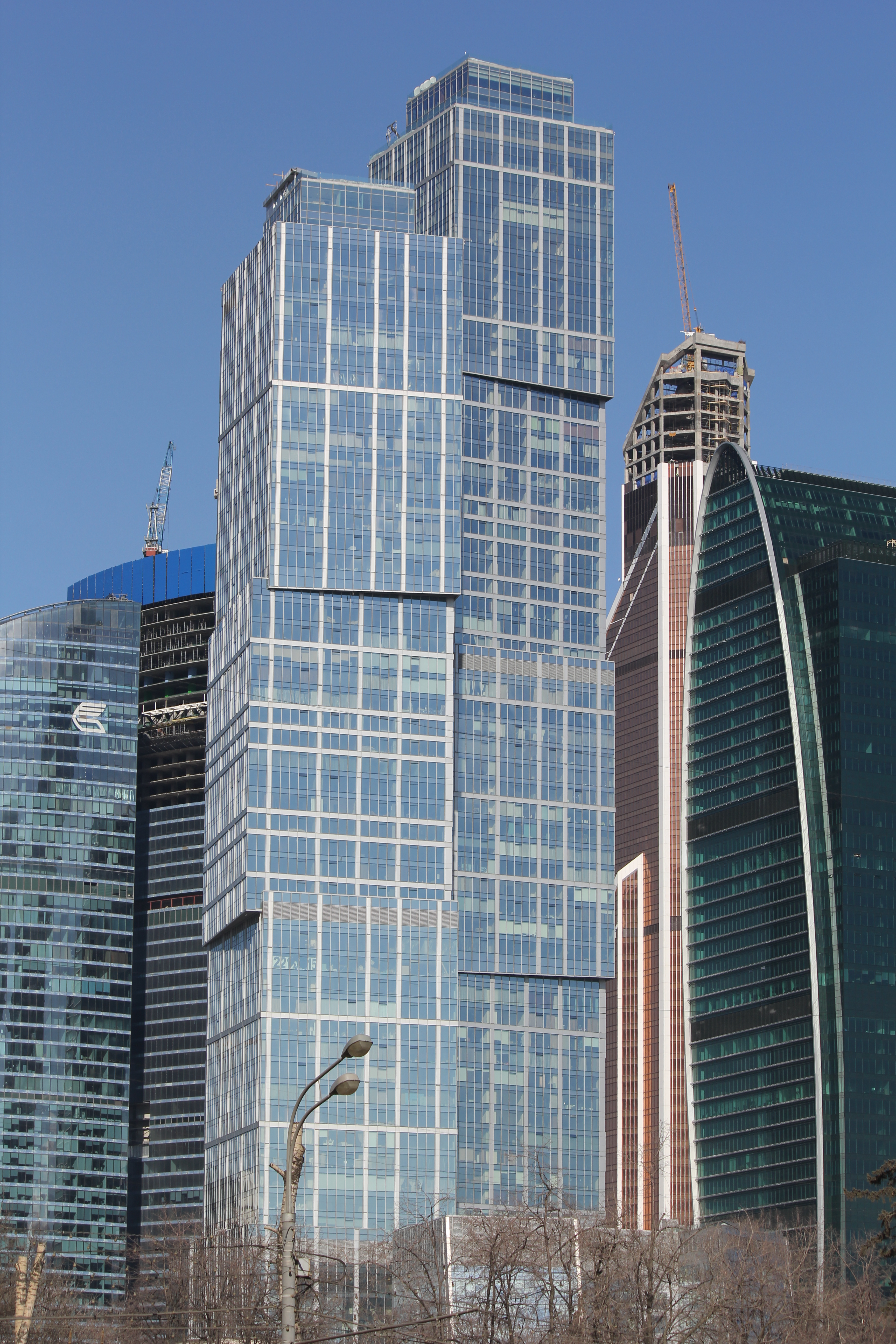 City of Capitals 10th March 2013